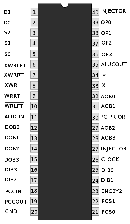 IC Pinout of Texas Instruments SBP0400 4-Bit bit-slice Processor